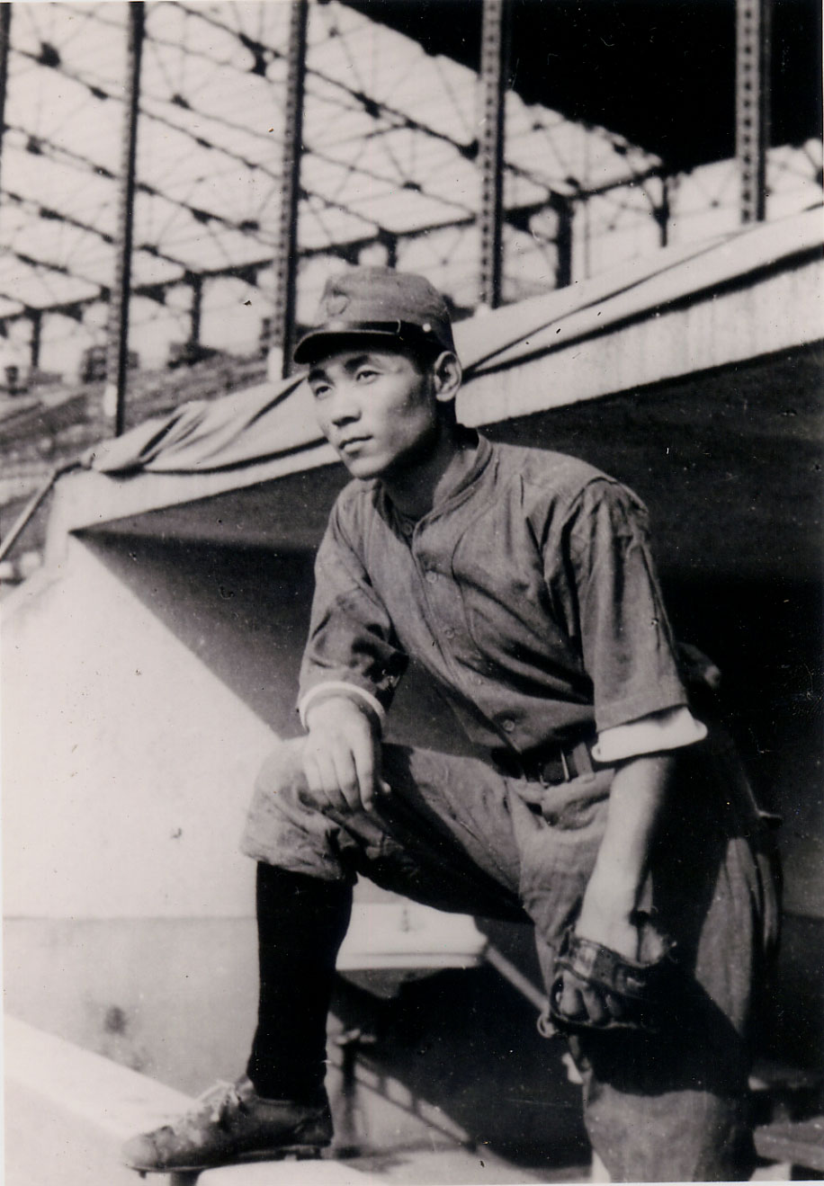 Shinichi Ishimaru, baseball player of Nagoya Gun (present-day: Chunichi Dragons).